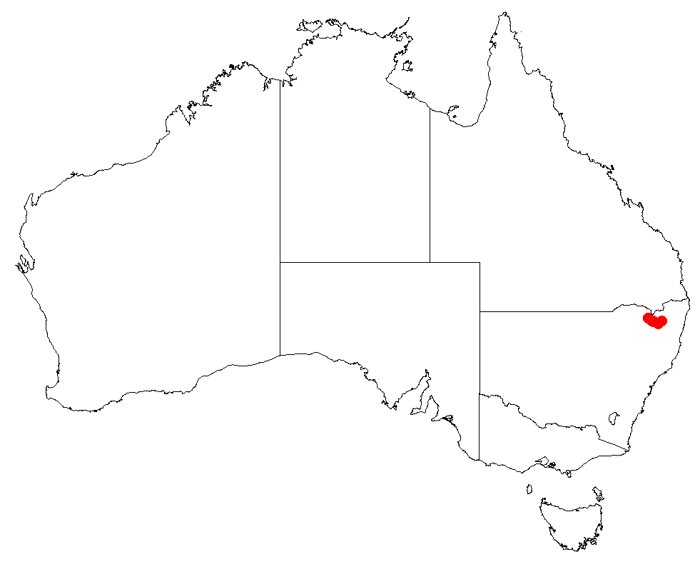 Homoranthus biflorus Occurrence data from AVH downloaded 28 September 2018